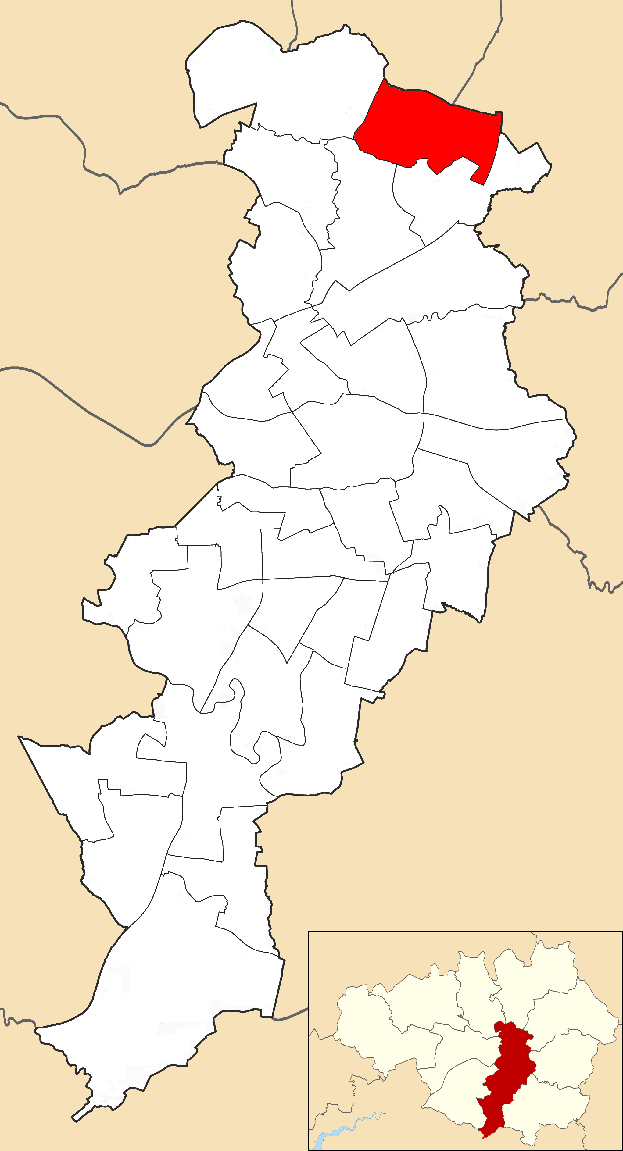 Map showing location of Charlestown ward within Manchester City Council.